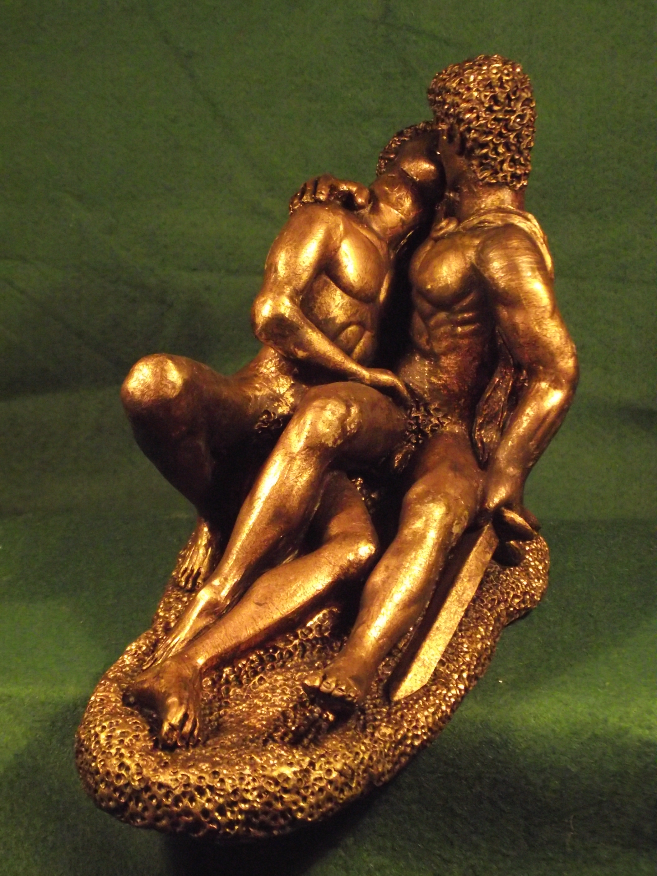 Nisus and Euryalus. Composite constructed sculpture of historical figure(s) reputed to have had a same sex relationships. Made of various materials & found objects with thin veneer film of bronze patina-ted paint giving appearance of solid bronze. A Metaphor of the appearance of solidity of LGBT rights & equality in law in the UK. Created by artist Malcolm Lidbury for 2016 LGBT History & Art Project Cornwall UK.